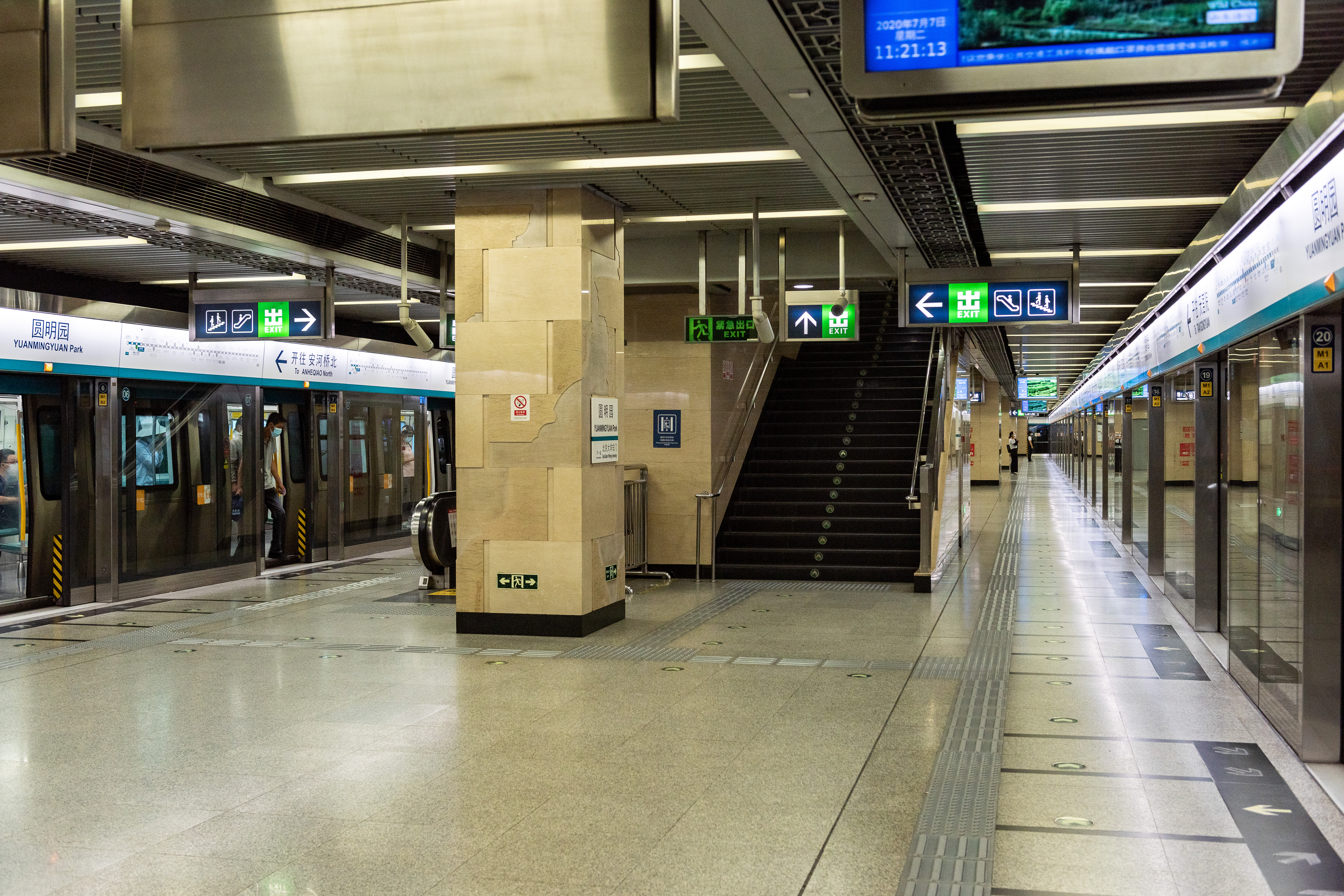 This is the day of college entrance examination.